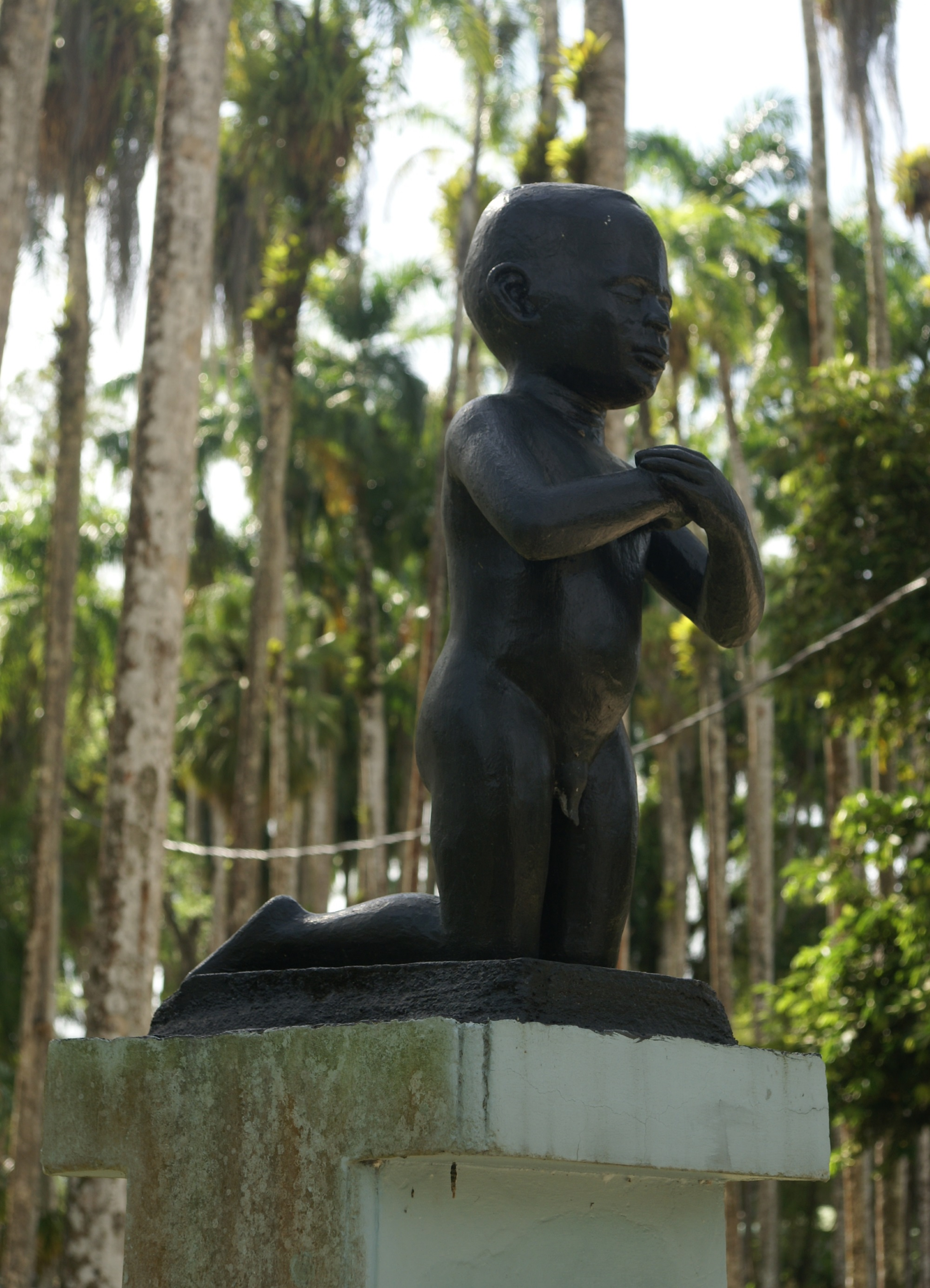 Statue of Ruben Klas, Palmentuin, Paramaribo, Surinam. By Jozef Klas. 20th century.